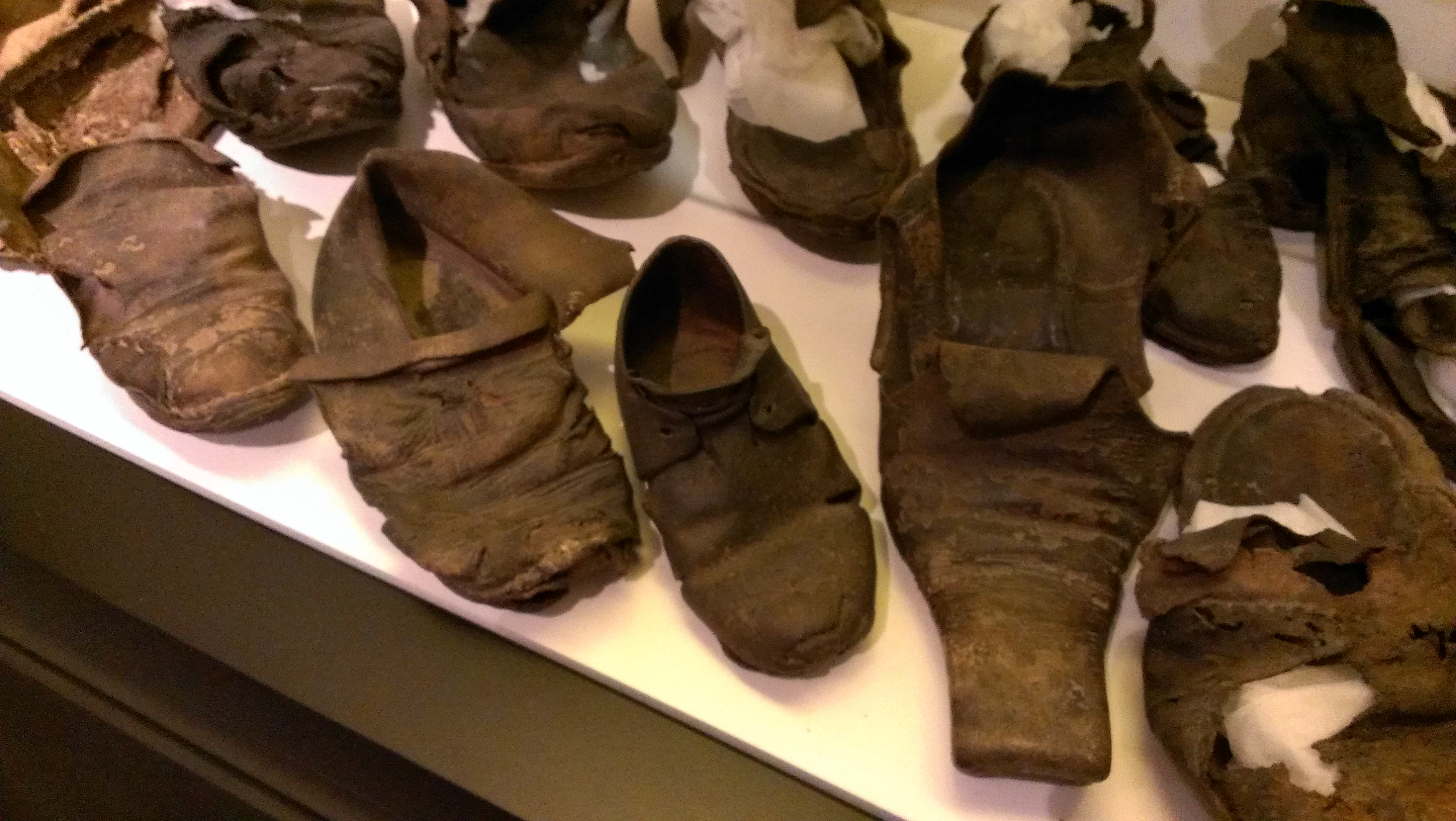 Collection of St Edmundsbury Heritage Service, St Edmundsbury Borough Council